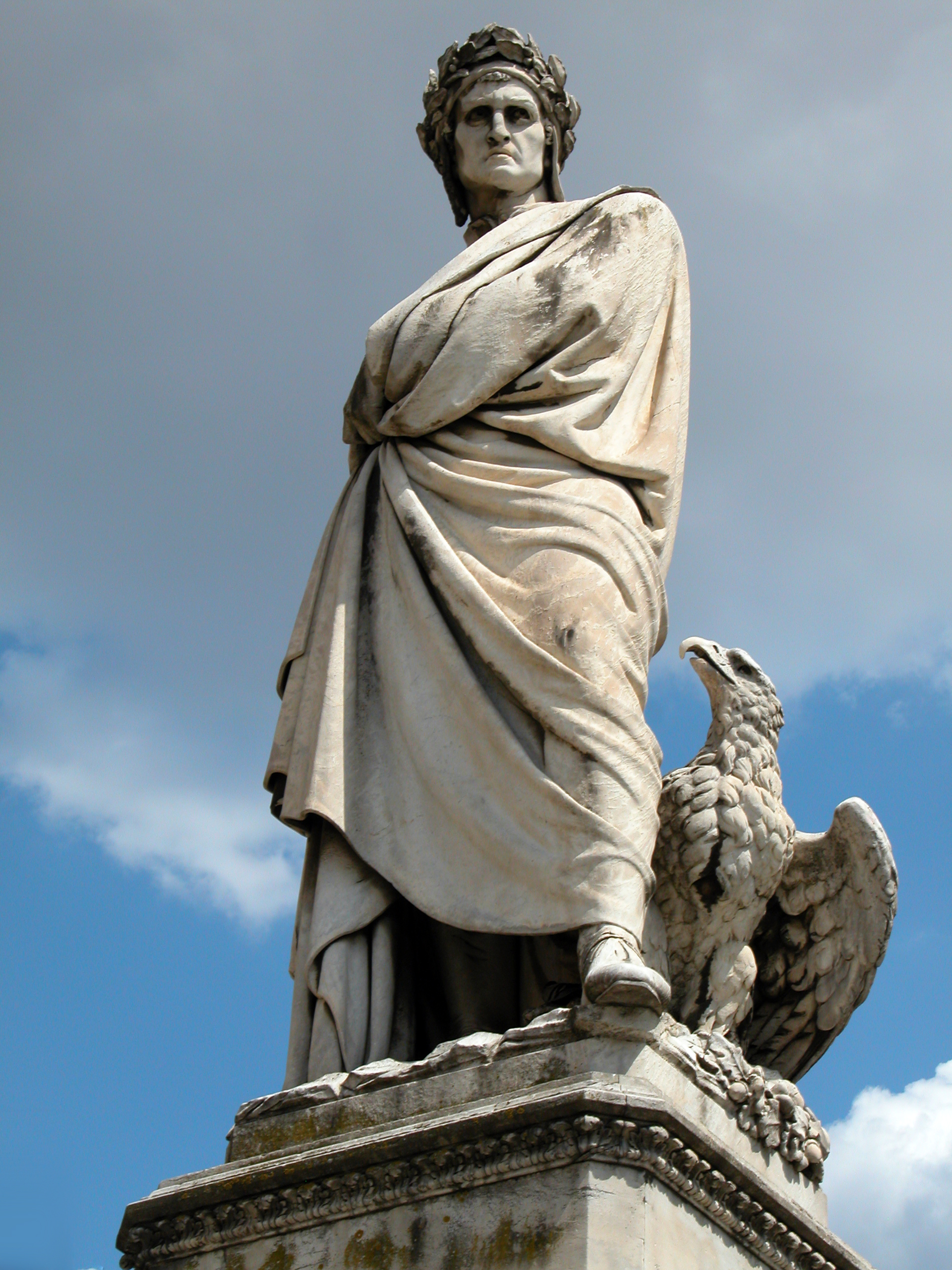 Statue of Dante at Santa Croce church, Florence